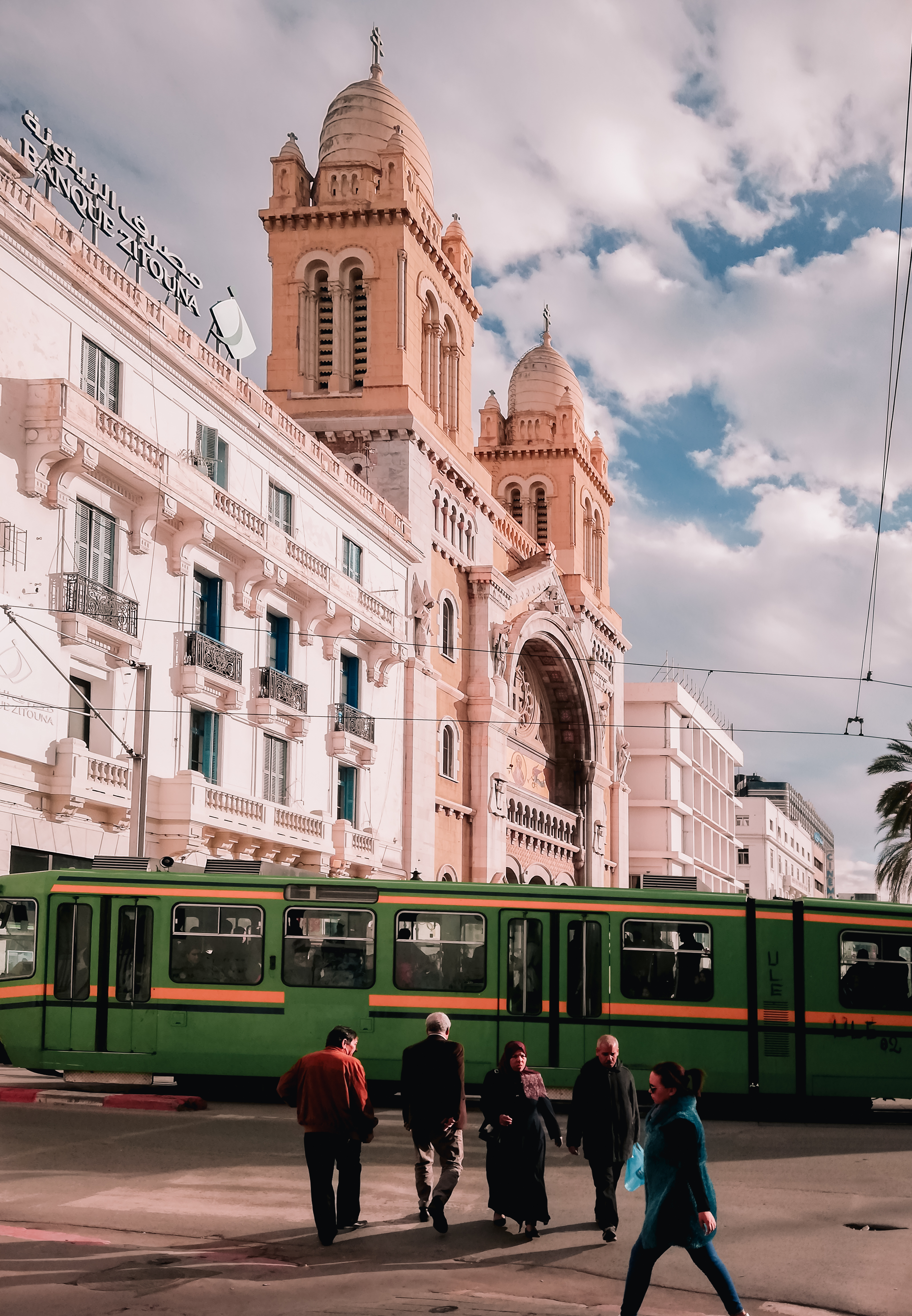 This is an image with the theme "Africa on the Move or Transport" from: Tunisia